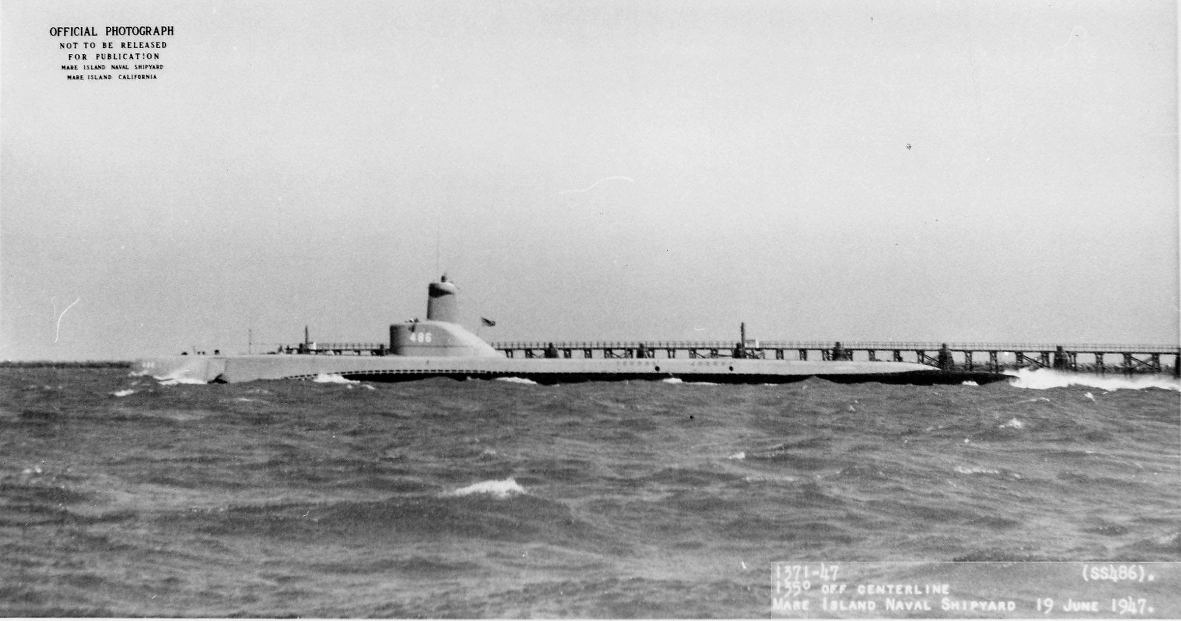 Broadside view of Pomodon (SS-486) at the South end of Mare Island on 19 June 1947. She was under conversion at the yard from 25 Oct 1946 to 26 July 1947.